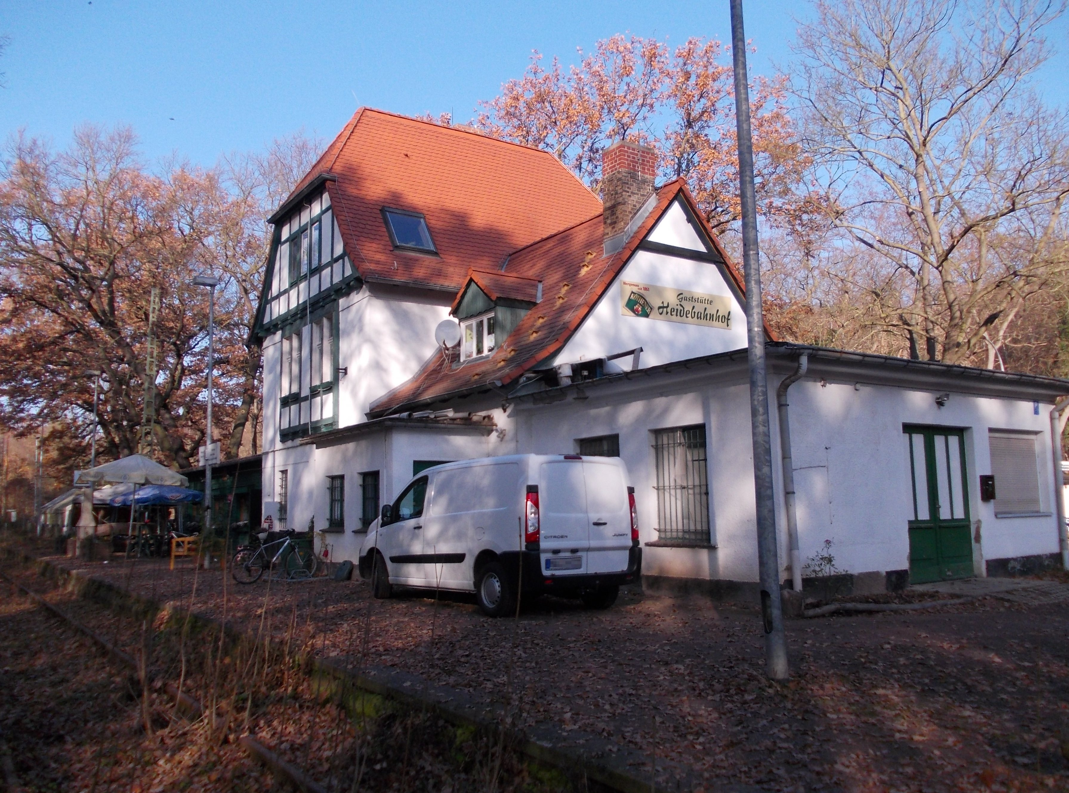 Former Halle-Heidebahnhof station in Halle (Saale)